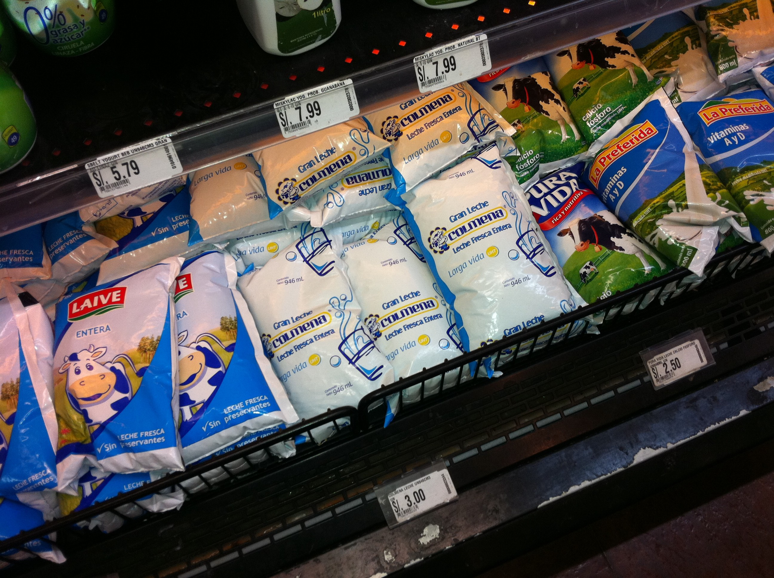 They also sell bags of milk in Peru. It is smaller and you do not need to buy 3 at once! (that explains why everyone is skinny here!)